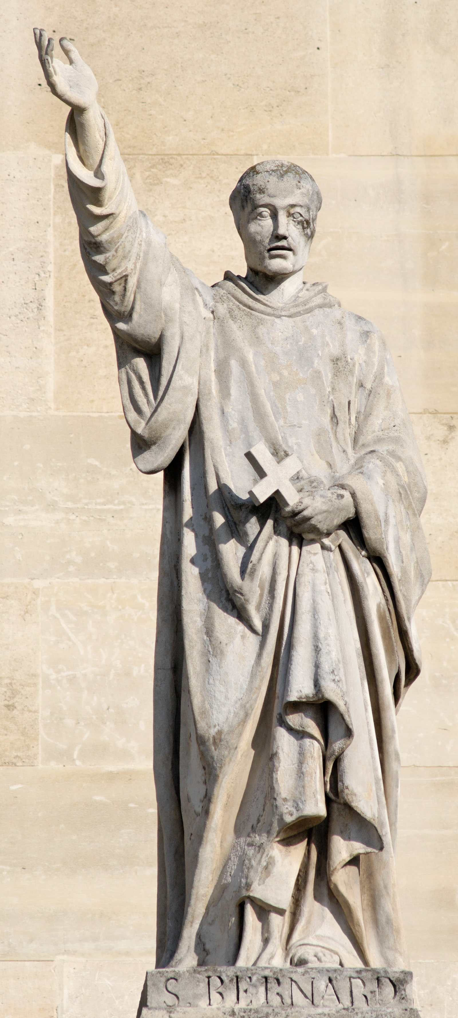 Saint Bernard by François Jouffroy. Stone, before 1853. 3rd statue from Pavillon Richelieu to Pavillon Colbert, Cour Napoléon in the Louvre.